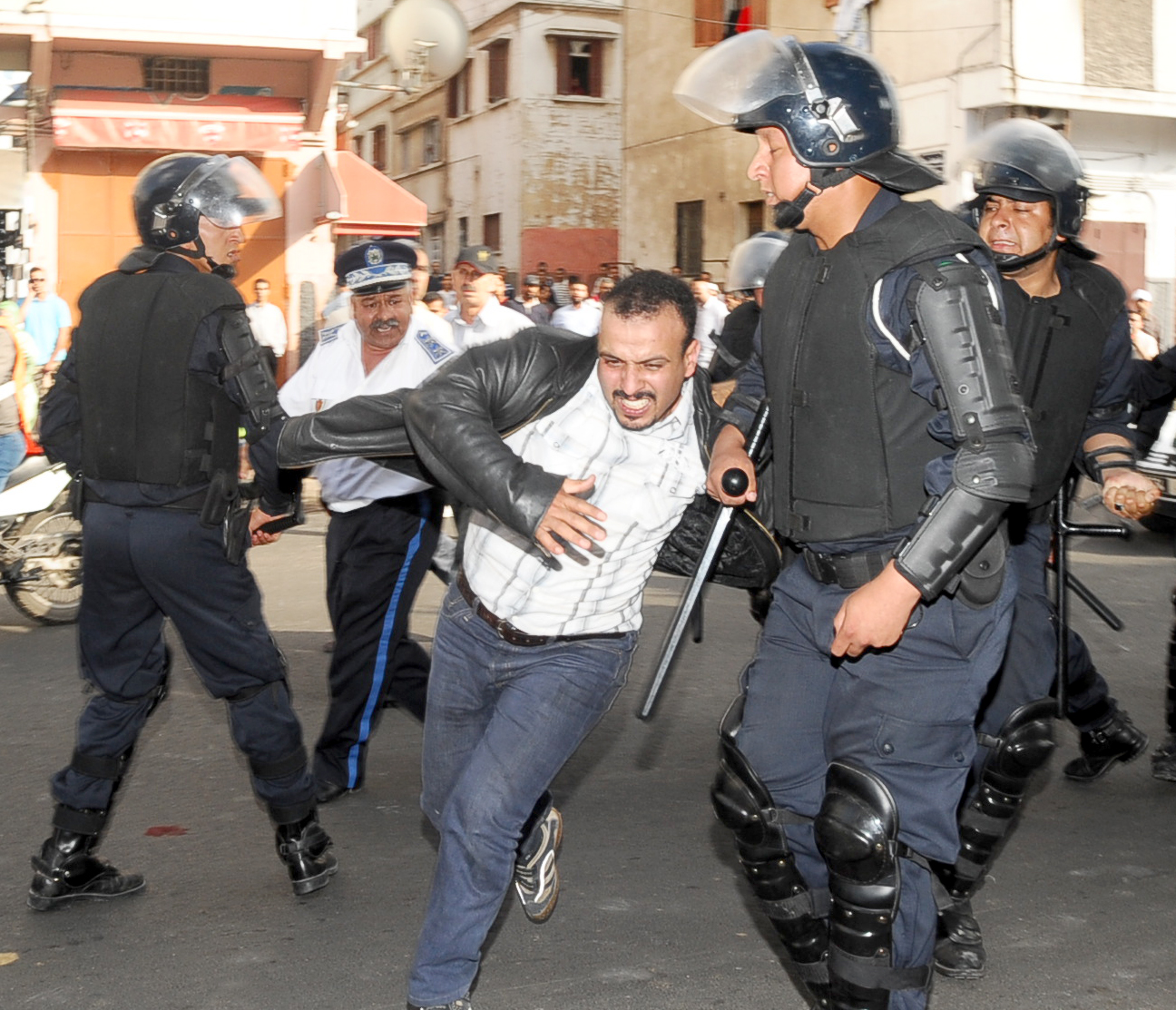 Moroccan security forces in Casablanca moved swiftly to break up the latest wave of protests.